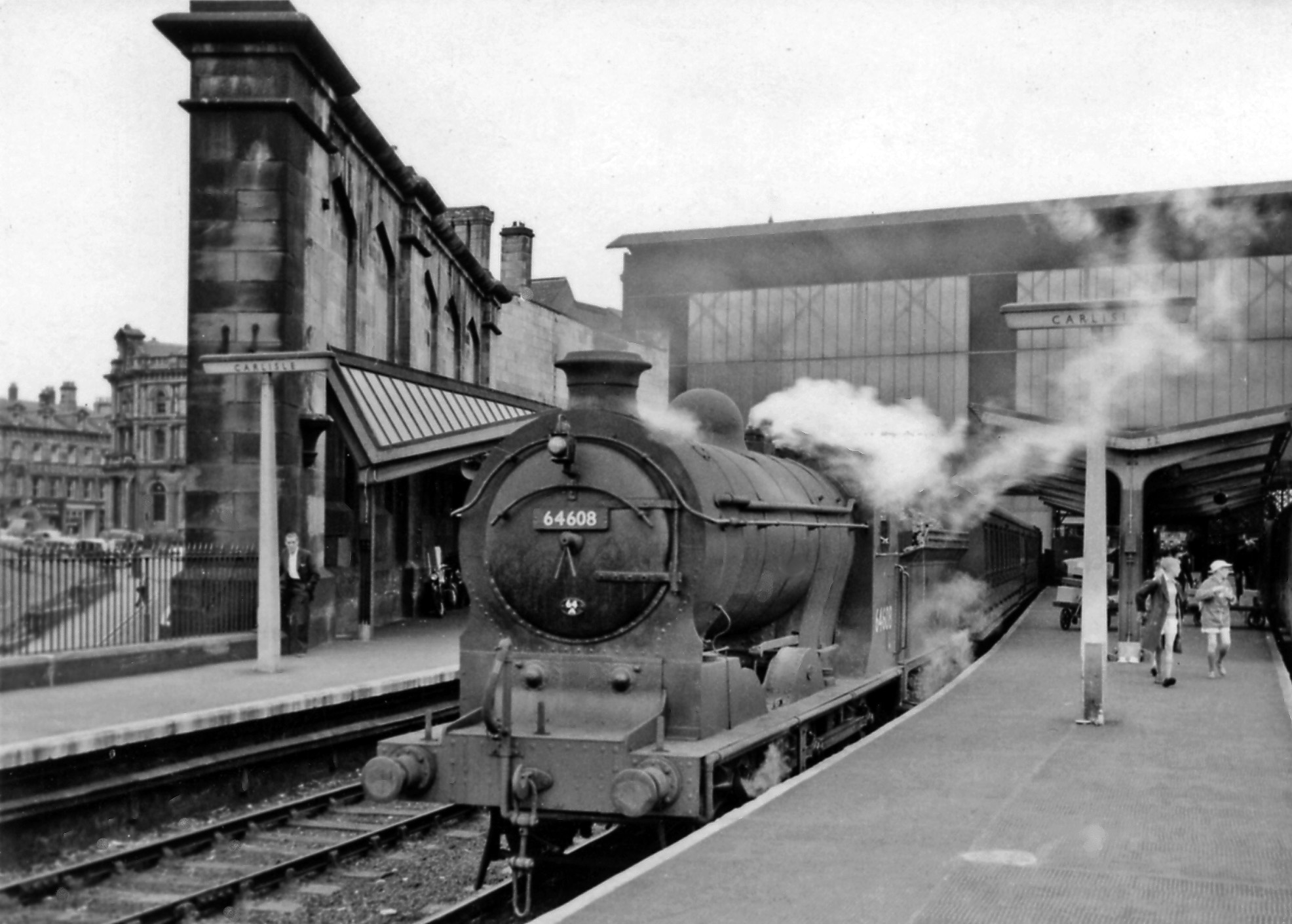 Stopping train to Hawick at Carlisle Station. View SE on Platform 7, with ex-North British J37 0-6-0 No. 64608 ready to leave on the 18.13 slow up the Waverley Route to Hawick (arriving 19.47). The scene shows this great Station in its less imposing state after the - by then decaying - glass roof with end-screens was rebuilt in 1957. Carlisle (Citadel)was owned jointly by the London & North Western and Caledonian Railways, but was unique in the number of other Companies it served:- North Eastern, Midland and Maryport & Carlisle from the south end; North British and Glasgow & South Western from the north - another train-watcher's paradise.